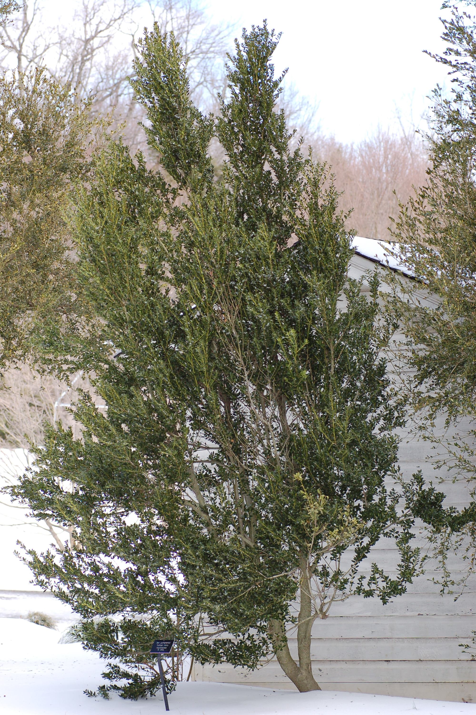 Photograph of the Yunnan Hollyen (Ilex yunnanensis en ). Photo taken at the Tyler Arboretum where it was identified.